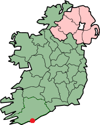 situation of Carrigaline in Ireland